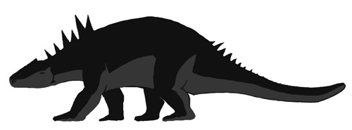 aproximation to the siluete an Acanthopholis would had. there is too few material found to do a more detailed image